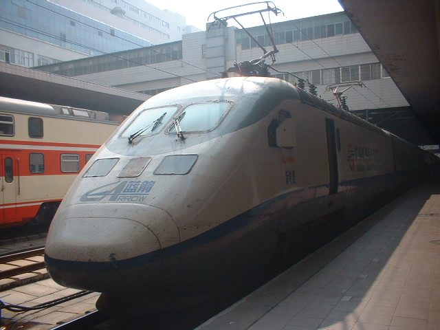 The DJJ1 "Blue Arrow"